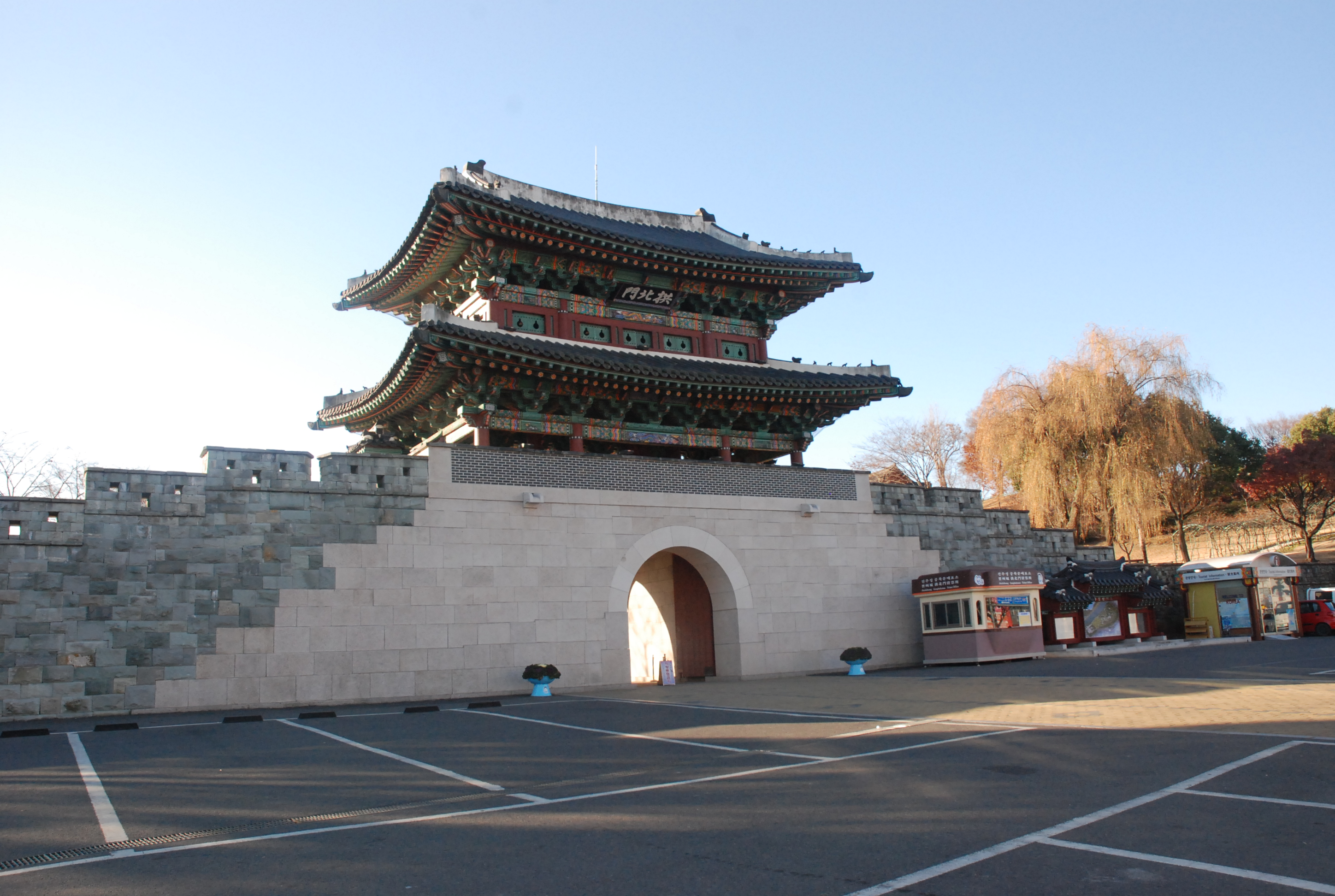 Jinju Castle-Gongbook-gate, North Entrance Gate into the Jinju Castle